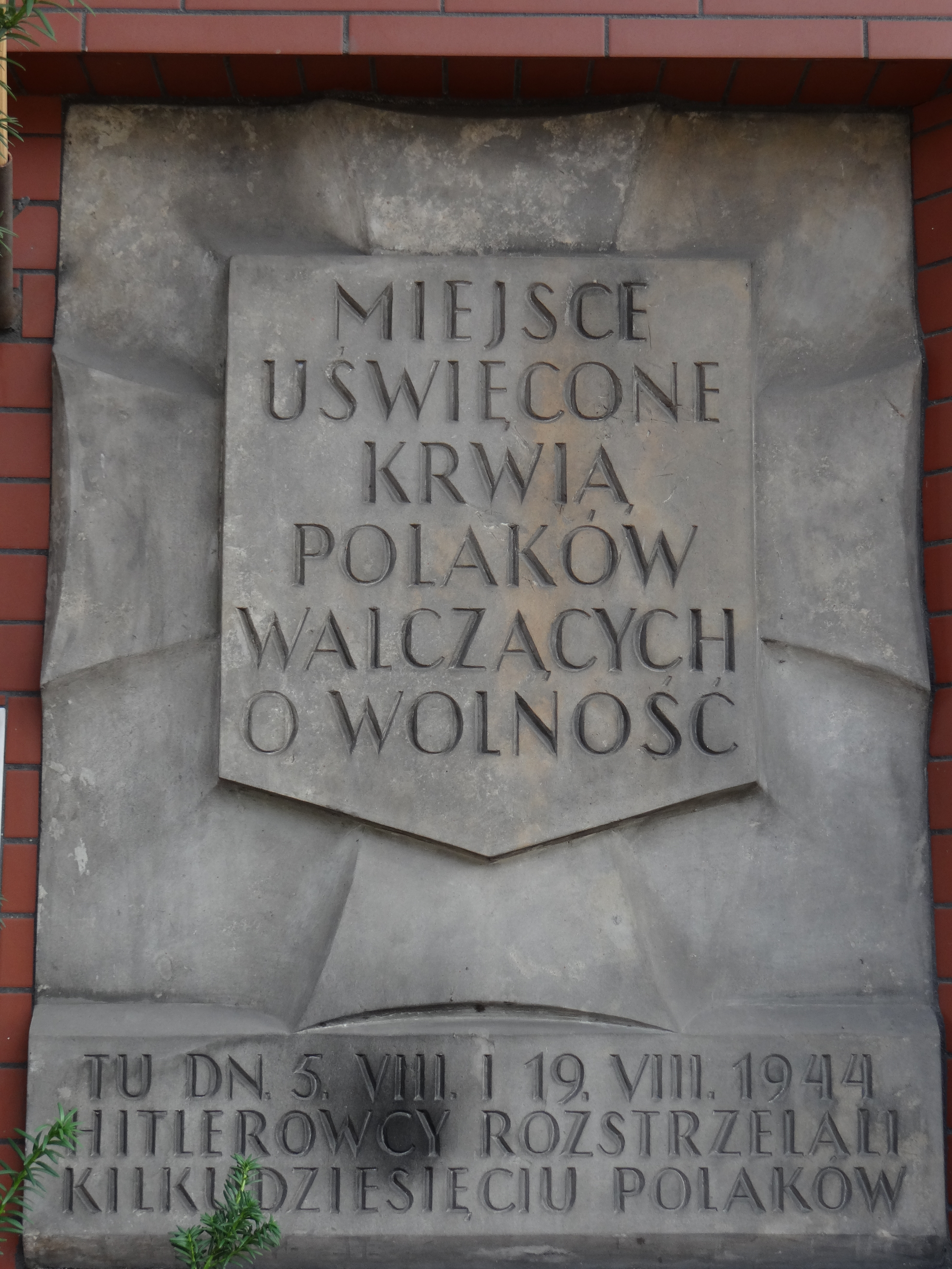 Memorial plaque at 15, Wawelska Street in Warsaw, Poland (Instytut Radowy)